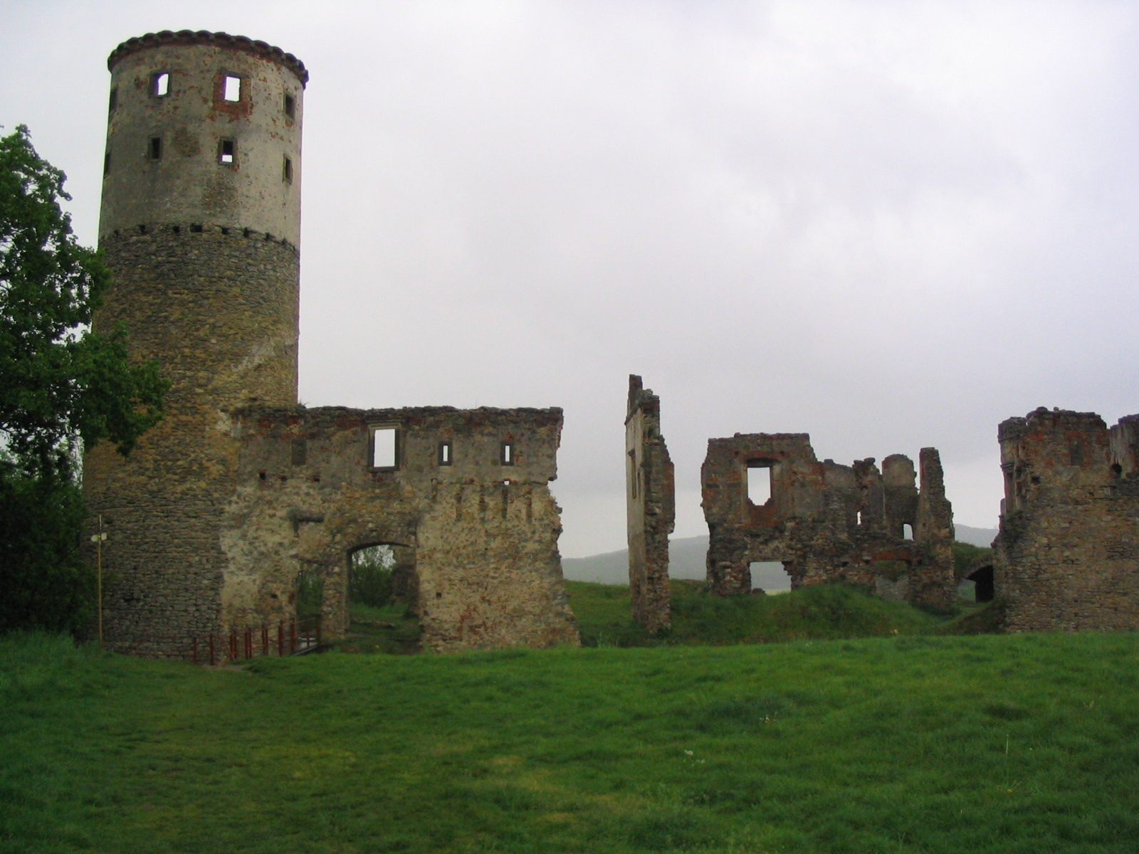 castle of zviretice, czech republic